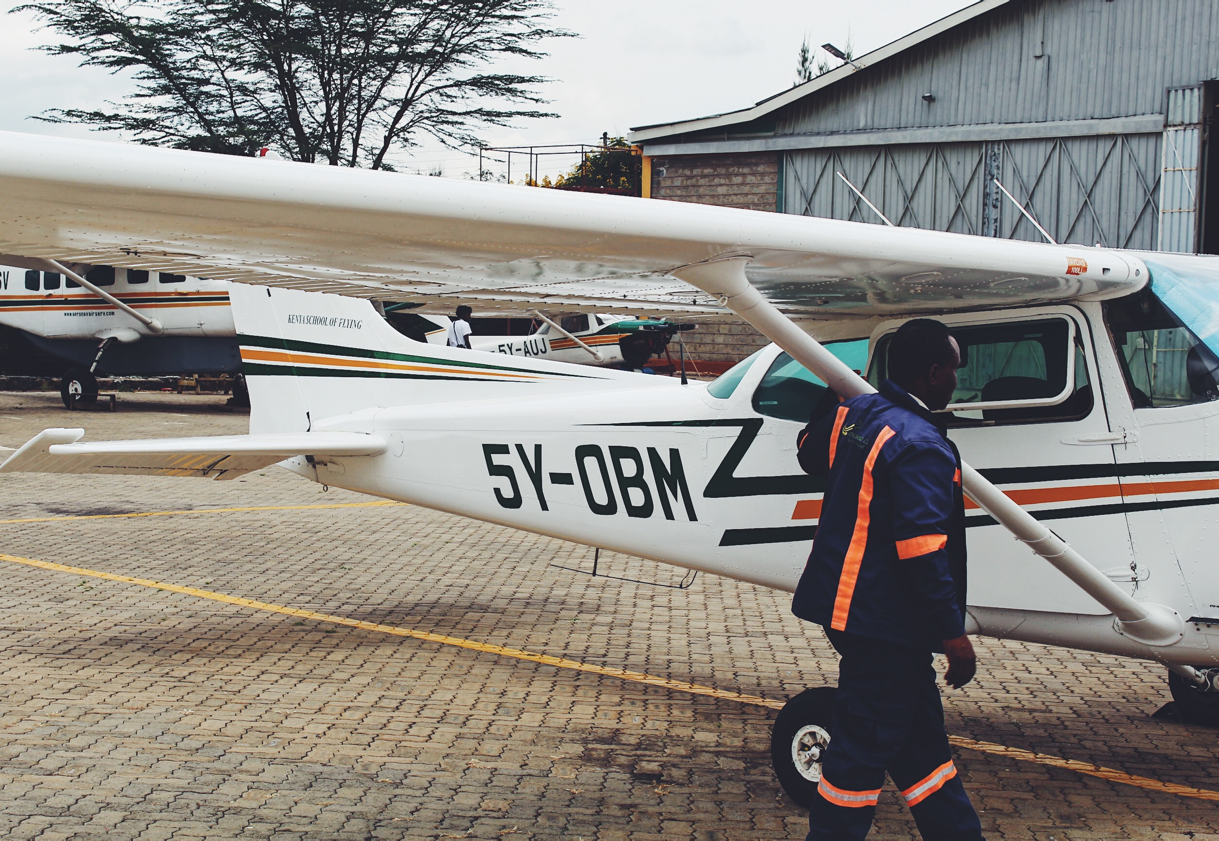 Aircrafts at Orly Airpark Kenya This is an image with the theme "Africa on the Move or Transport" from: Kenya